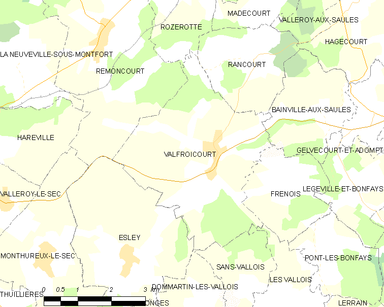 Map of French municipality Valfroicourt